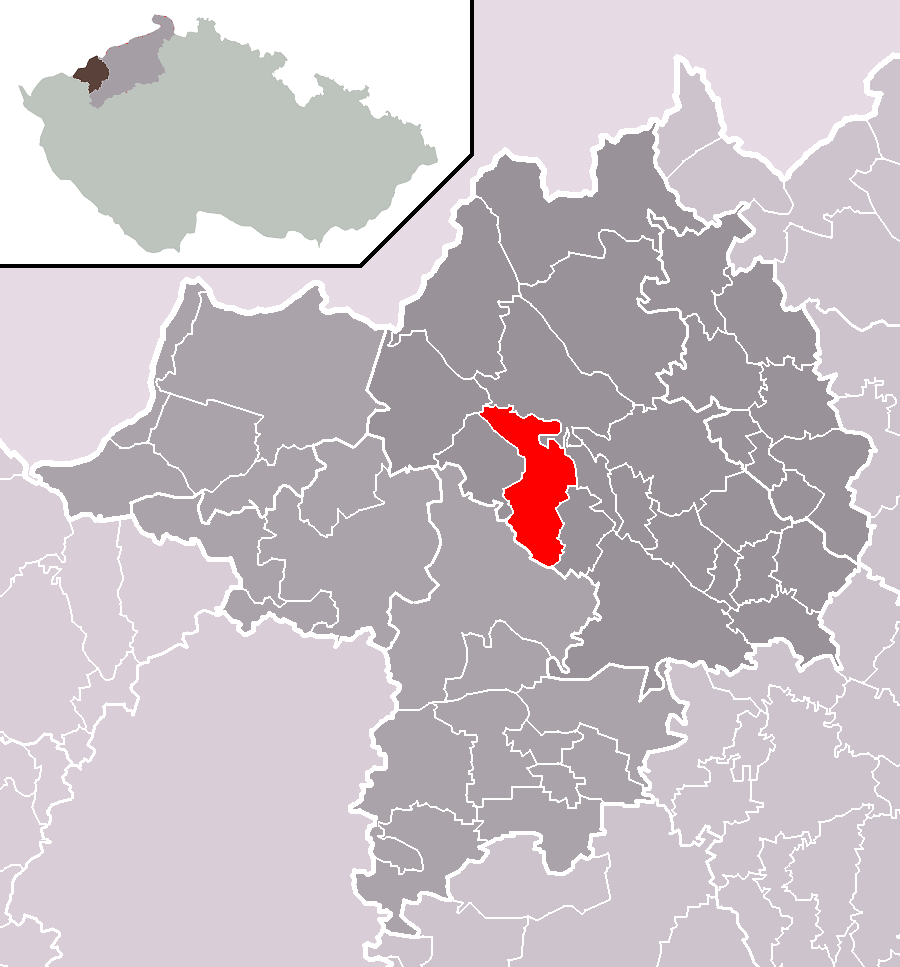 Location of Málkov municipality within Chomutov District and administrative area of Chomutov as a Municipality with Extended Competence.